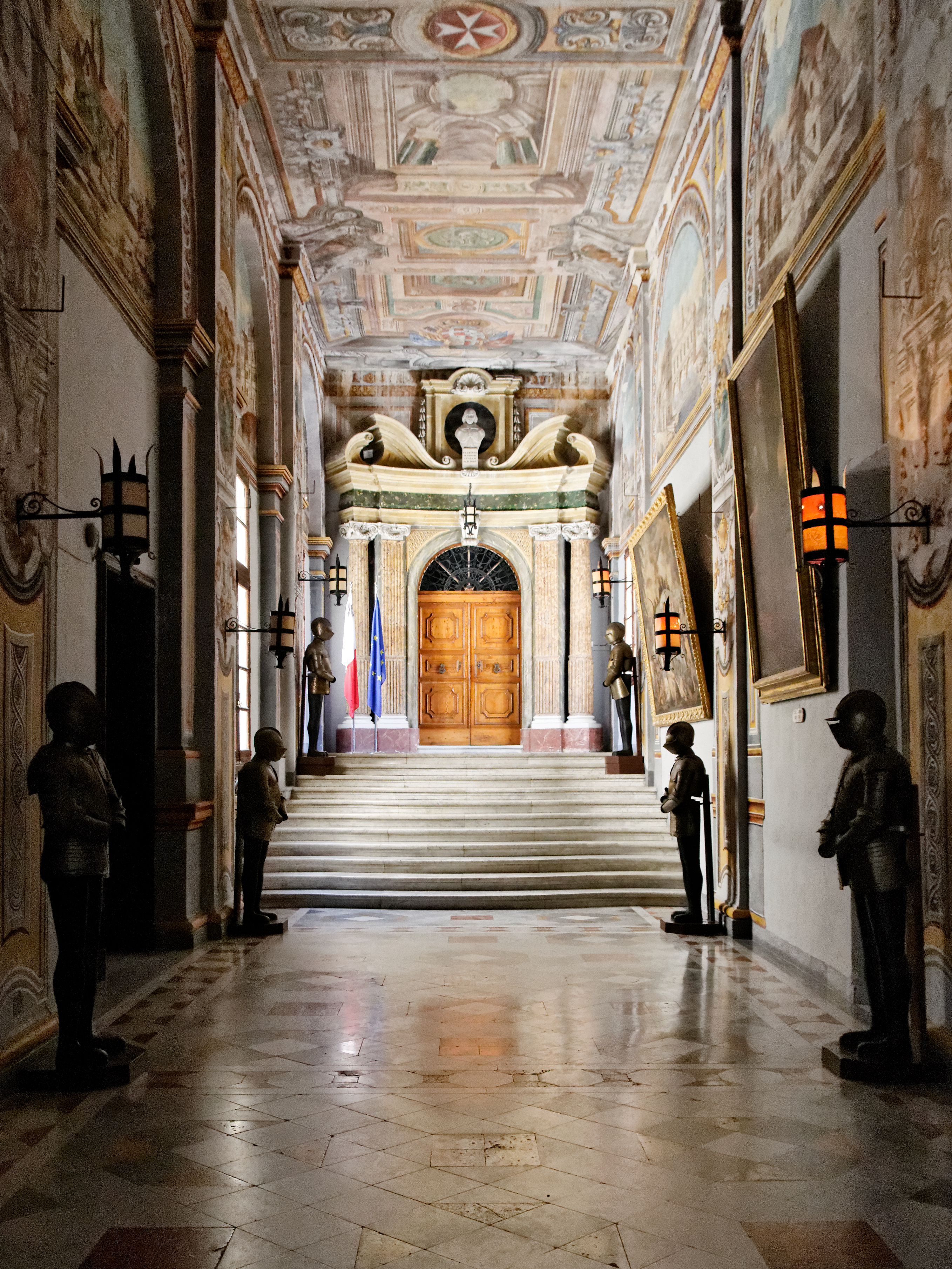 Interior of the Grandmaster's Palace in Valletta, Malta.